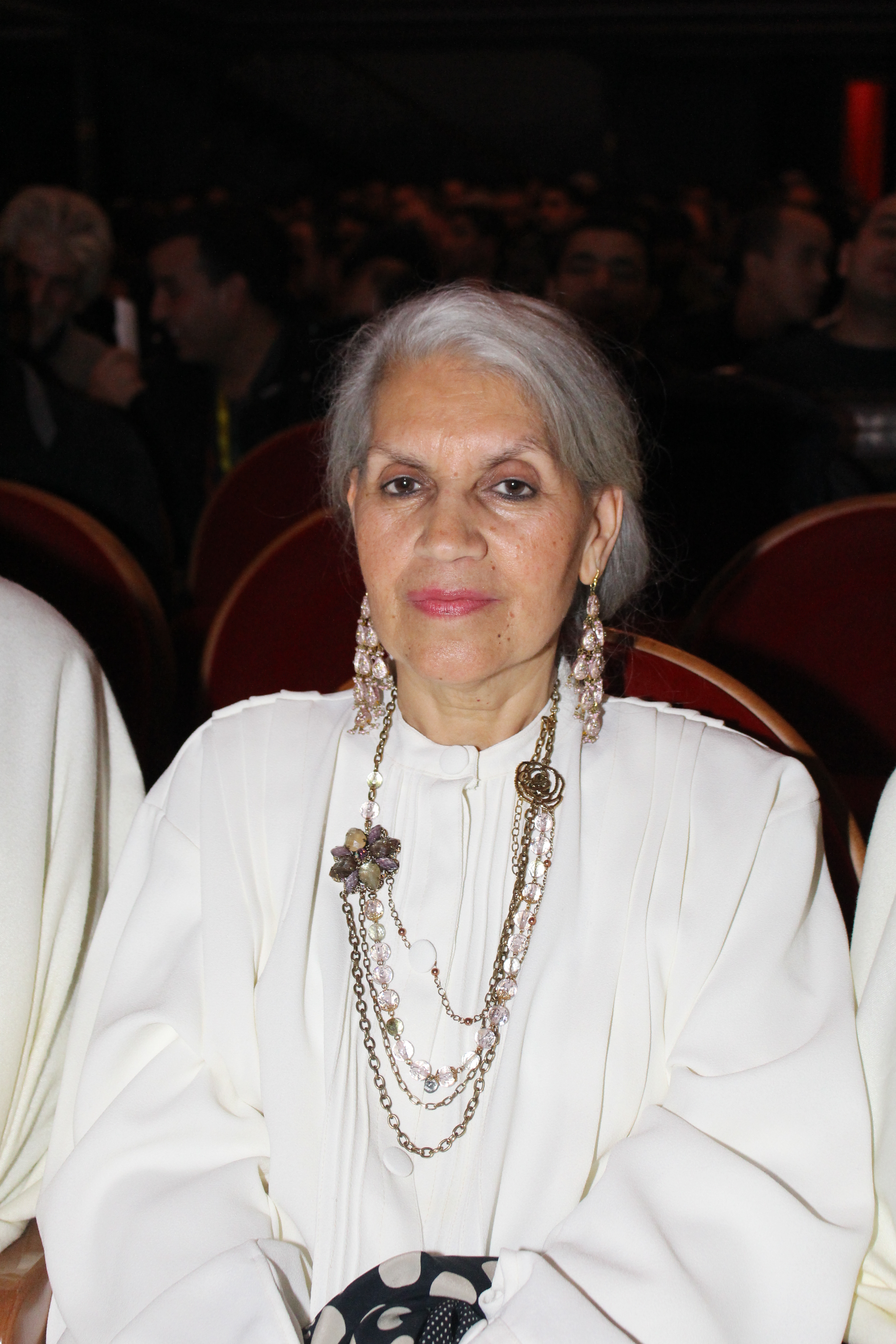 Dihya, singer of Shawiya music at the regional theater of Batna